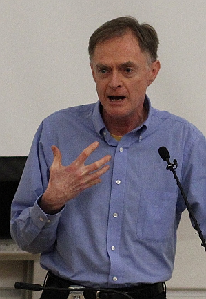 Richard Heinberg discusses energy at University of Toronto